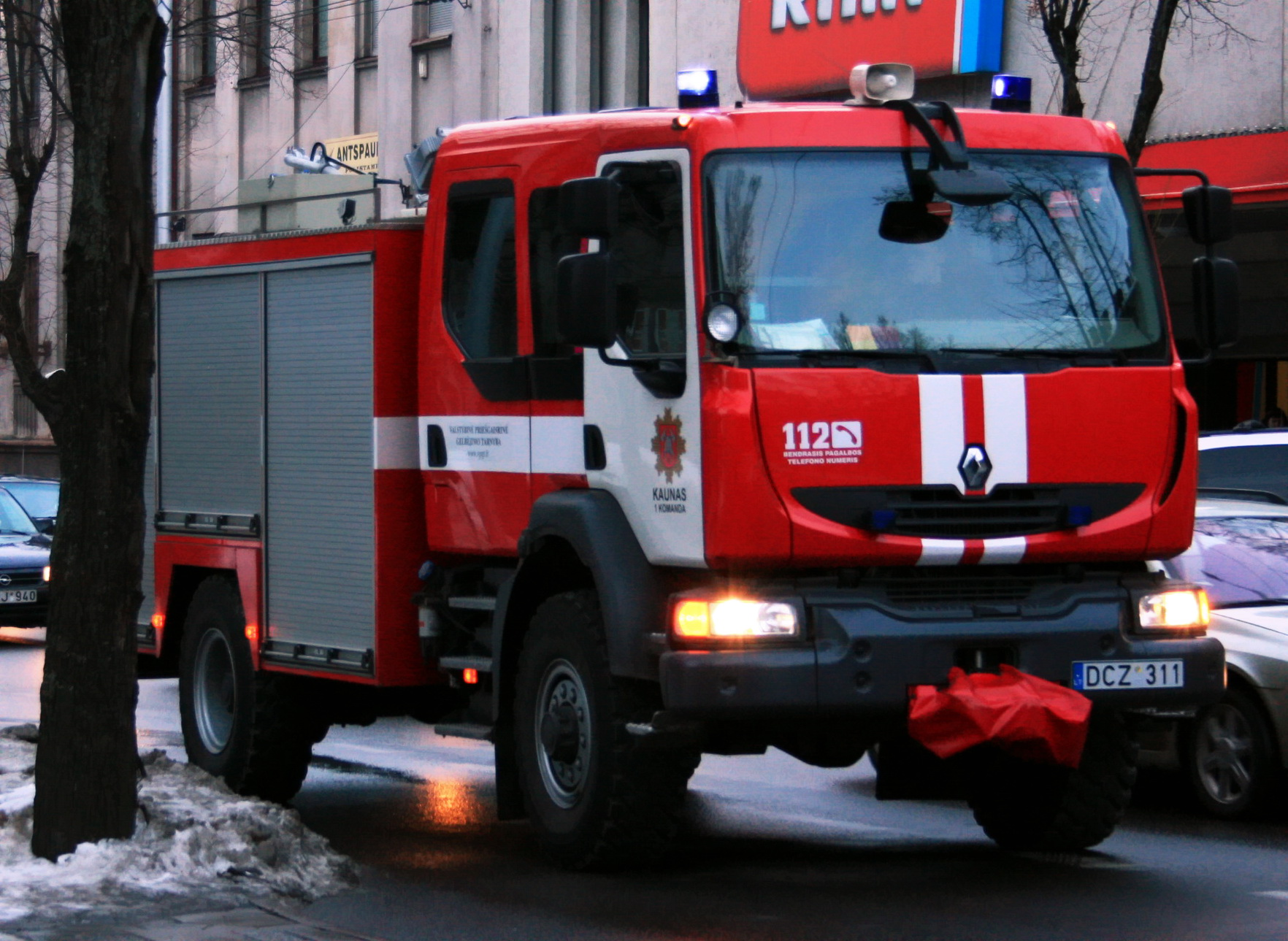 A fire engine made by Renault on a street in Kaunas